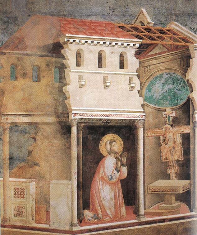 Legend of St Francis: Scenes Nos. 4-6